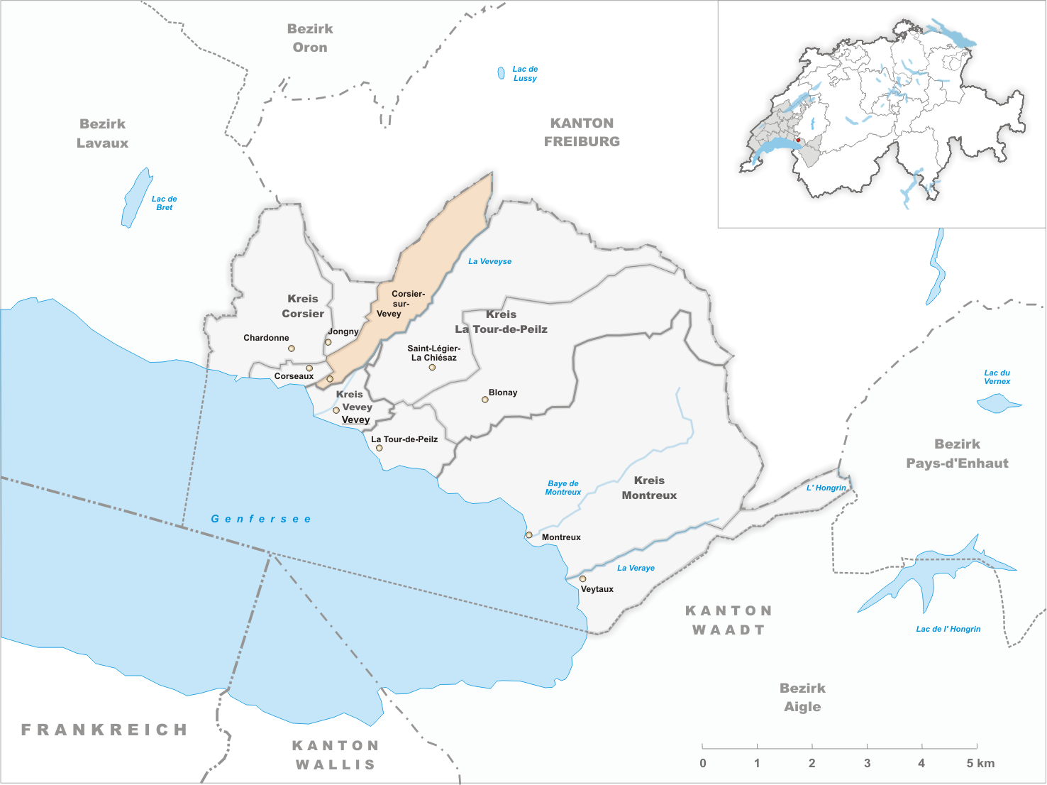 Municipality Corsier-sur-Vevey